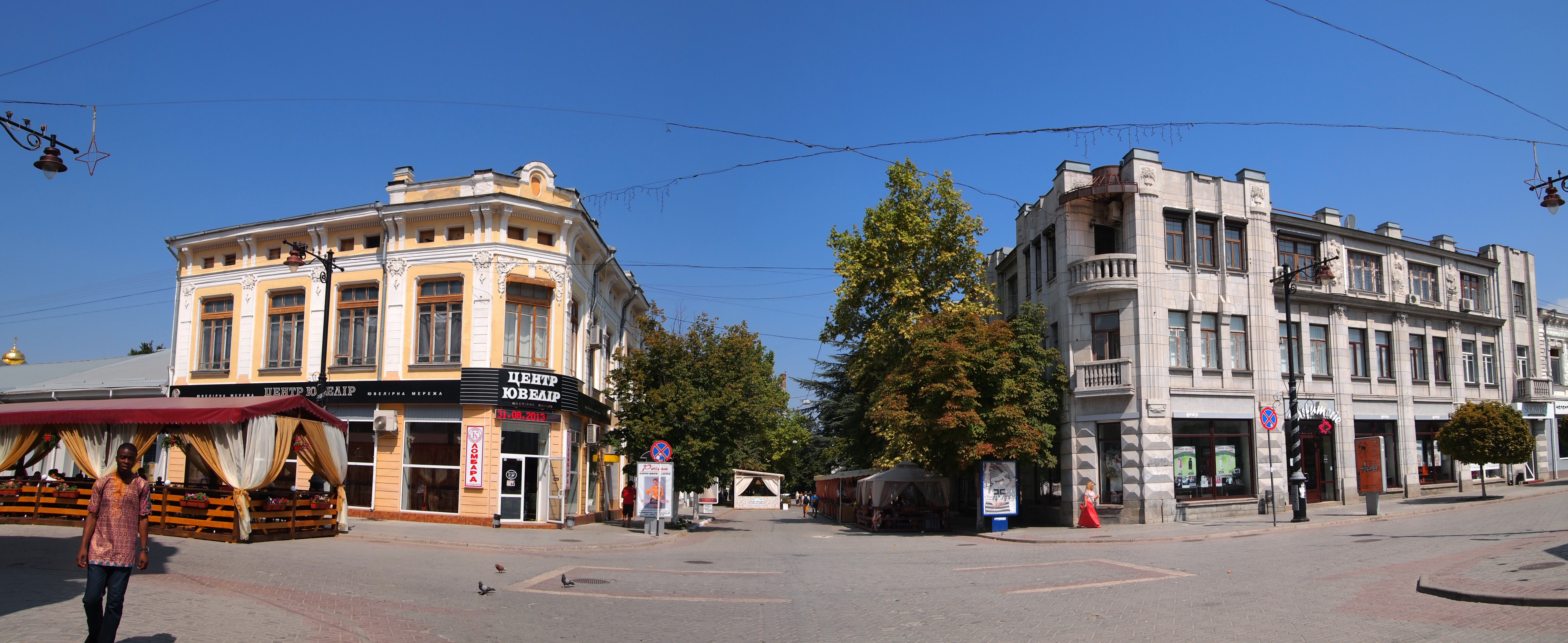 Panoramic view of the corner of the streets Karl Marx and Pushkina, Simferopol. This photograph was taken with an Olympus E-PL1